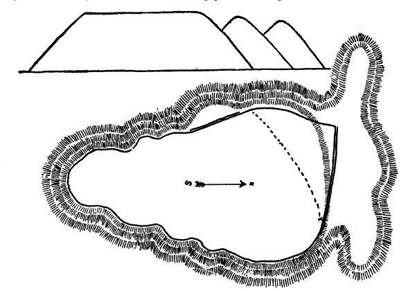 Sketch of Spanish Hill, including possible battlements